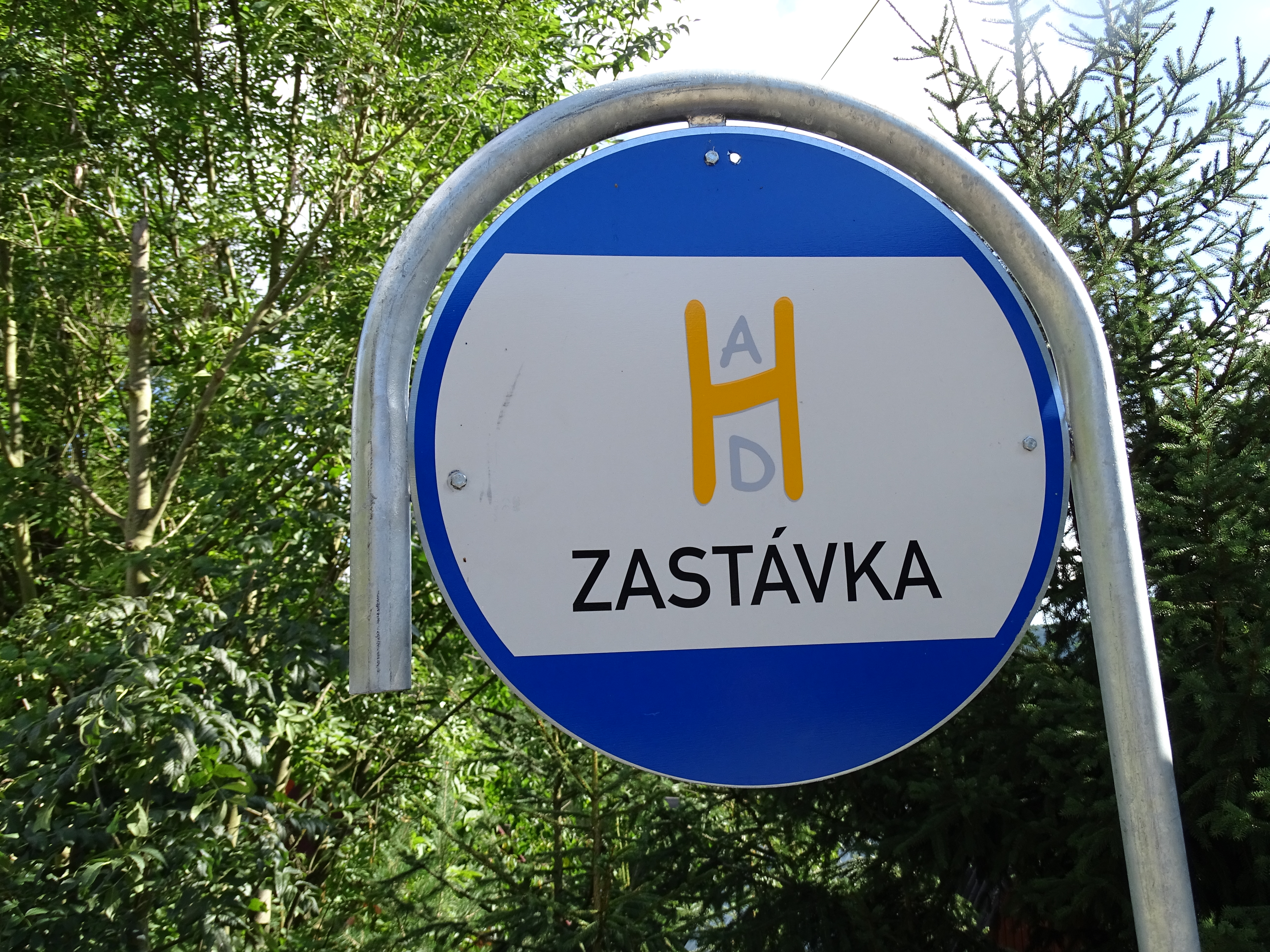 Zvíkovec, Rokycany District, Plzeň Region, the Czech Republic. Kalinova Ves, road II/233, a bus stop.